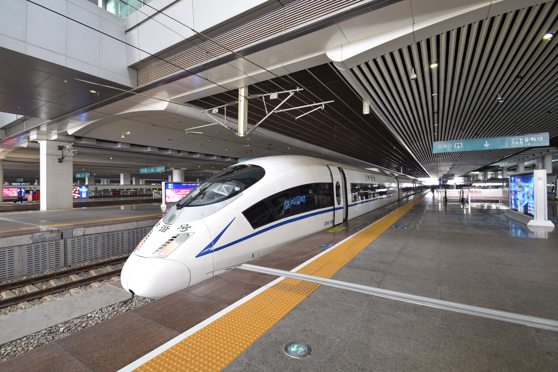 Guangzhou-Shenzhen-Hong Kong High-Speed Railway CRH3C-3060 EMU @ Guangzhou South (Nan) Railway Station